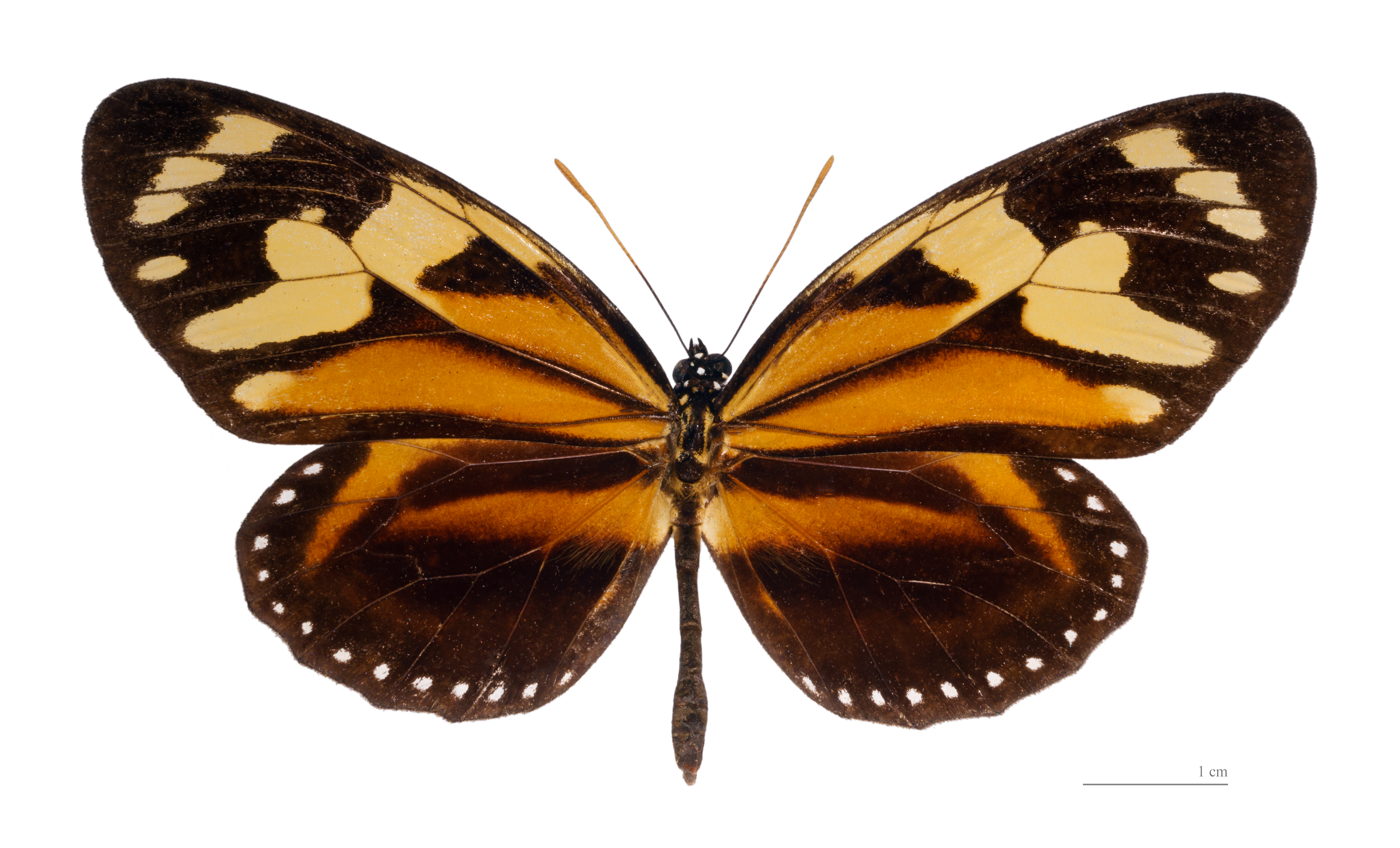 ♂ - Dorsal side Locality: Quartier Balata, Cayenne, French Guianna.